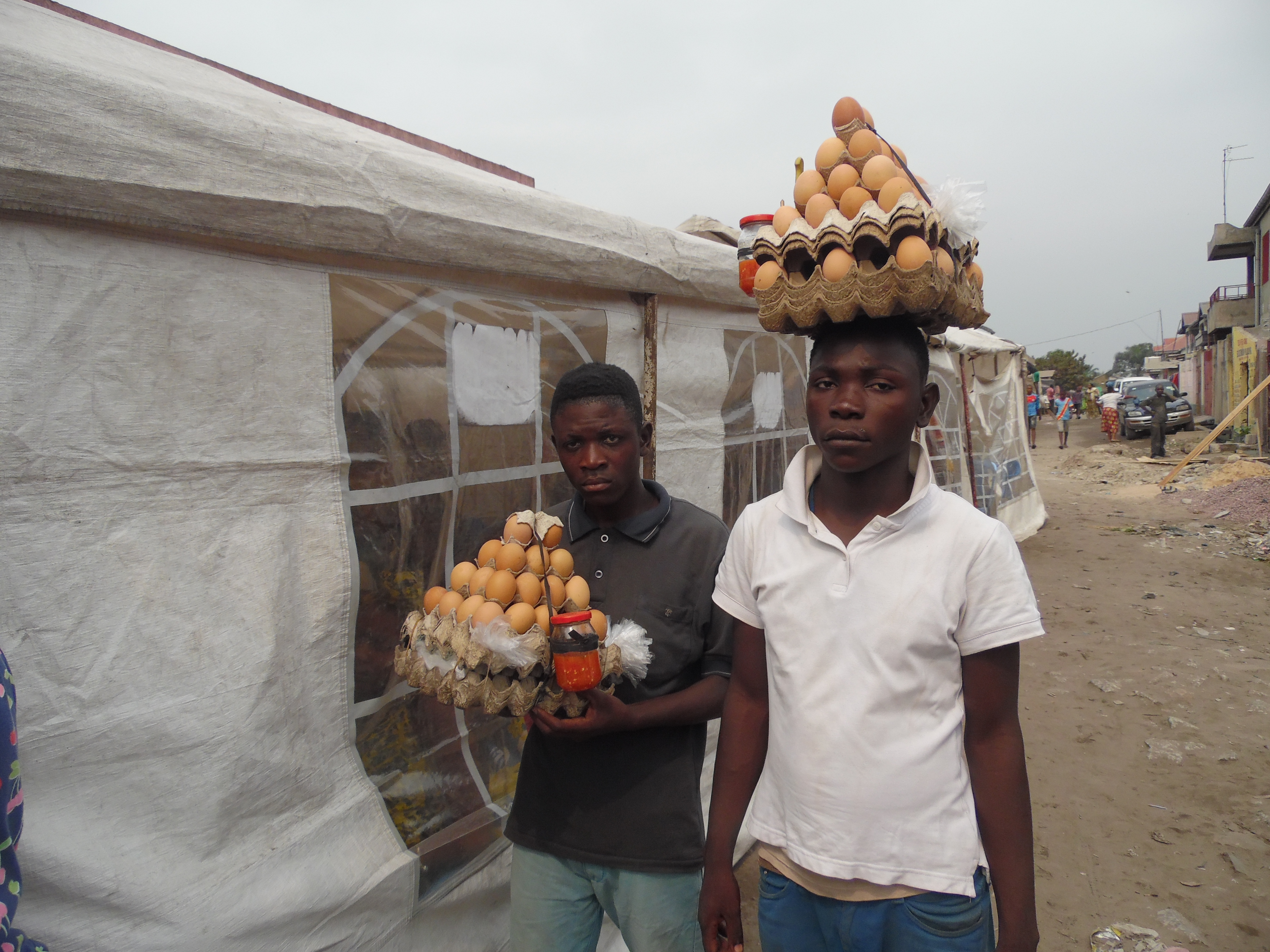 seller of eggs in the roads of Kinshasa This is an image of "African people at work" from Democratic Republic of the Congo